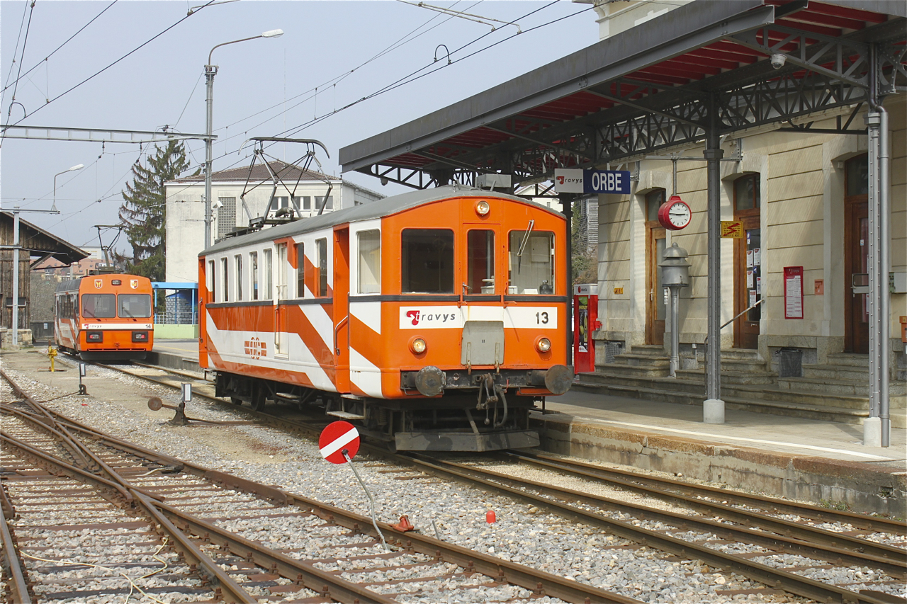 OC BDe 4/4 13 at Orbe train station.